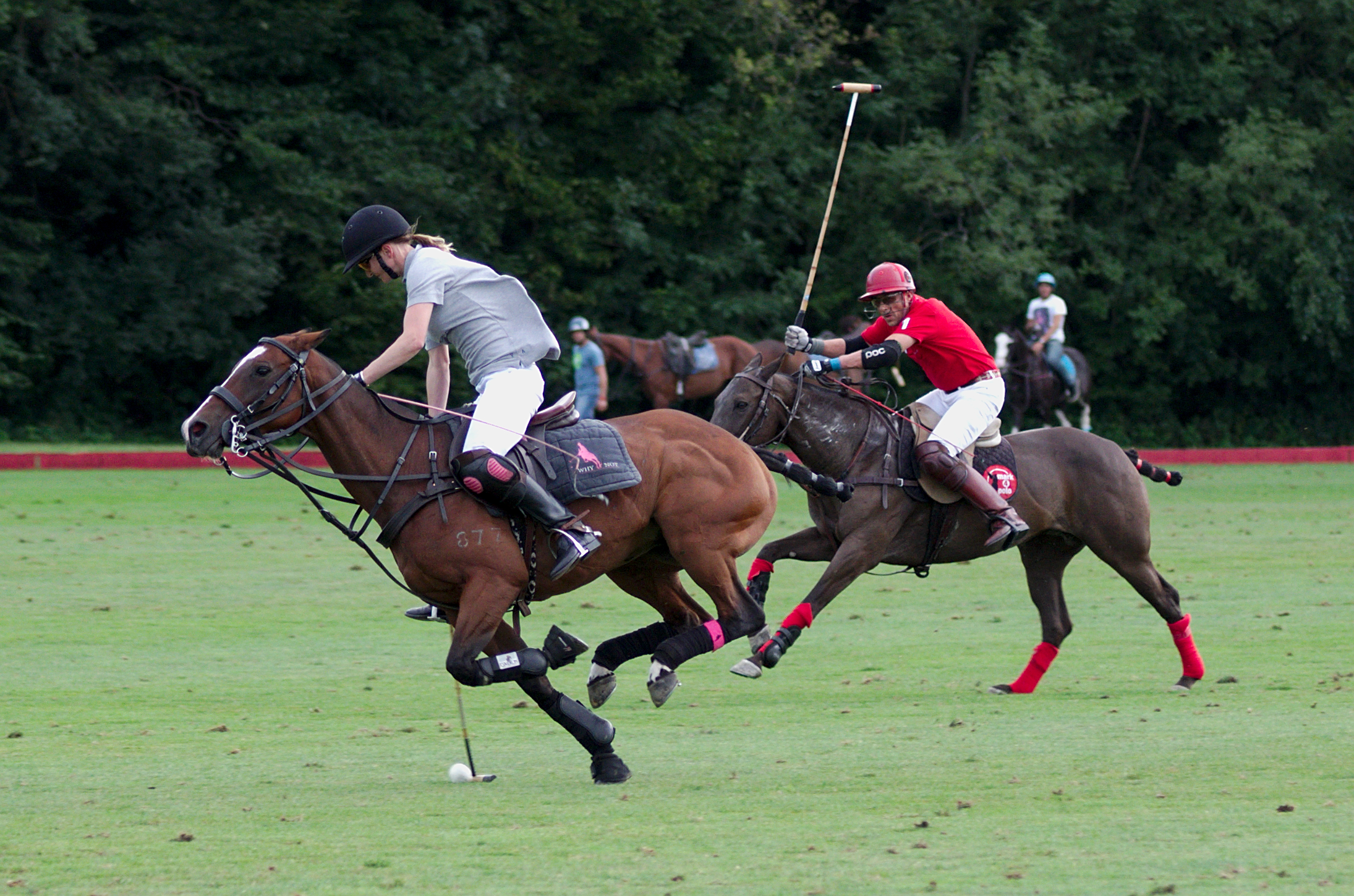 Jaeger-LeCoultre Polo Masters 2013 - 25082013 - Match Poloyou vs Lynx Energy